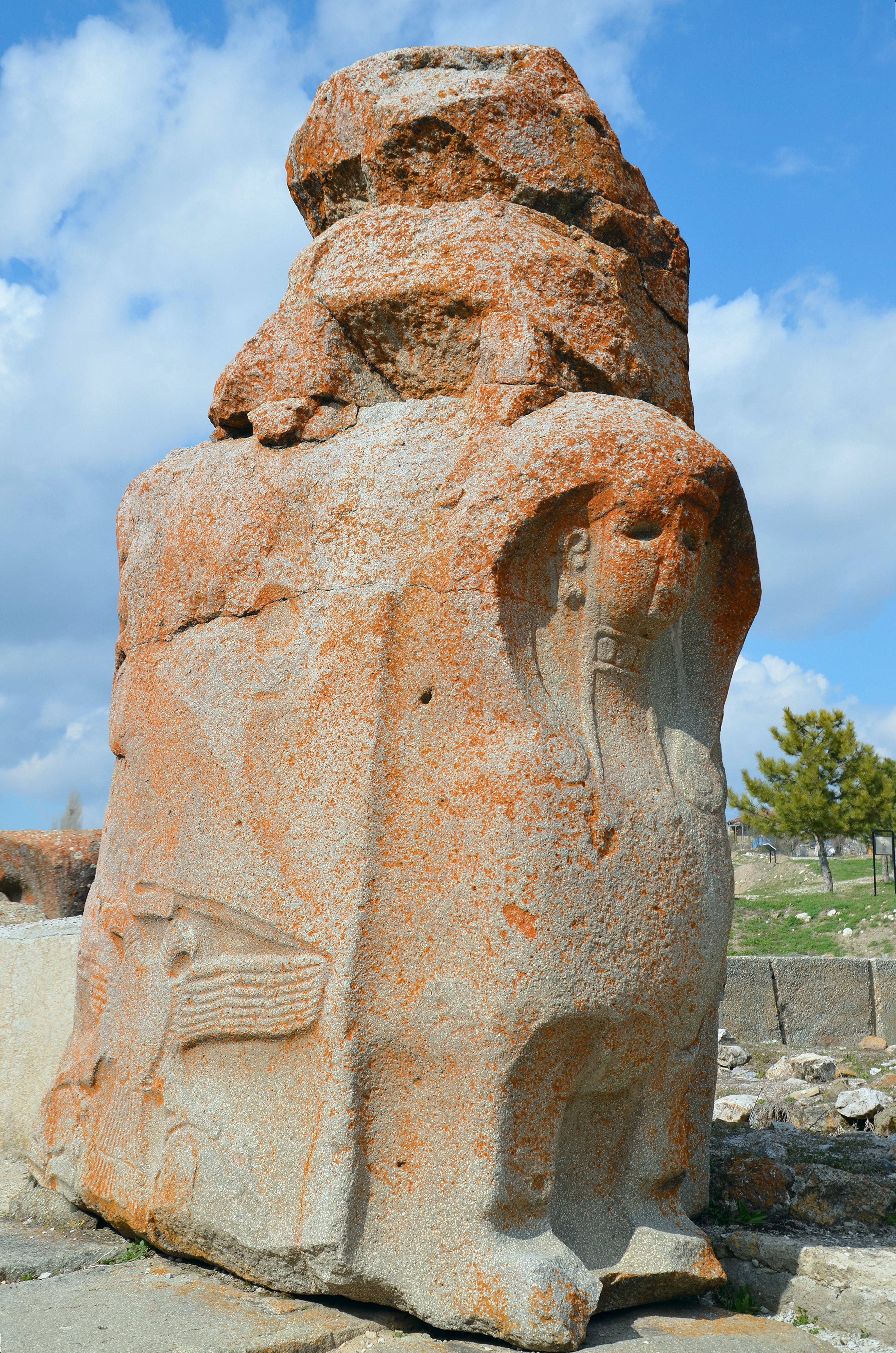 The Sphinx Gate, 14th century BC, Alacahöyük, Turkey Alacahöyük